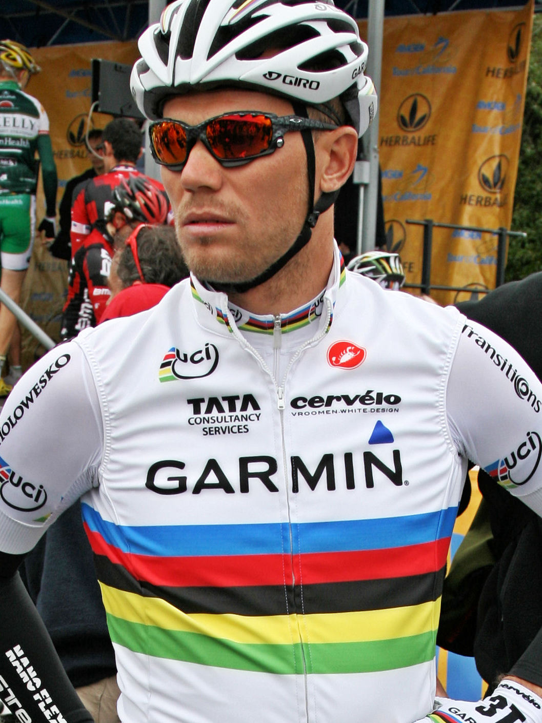 Thor Hushhovd in his road champion colors. Before the Stage 5 start in Seaside, 2011 Amgen Tour of California. You're free to use this photo but you MUST attribute to Richard Masoner / Cyclelicious and (for online publications) link to Thanks for viewing!